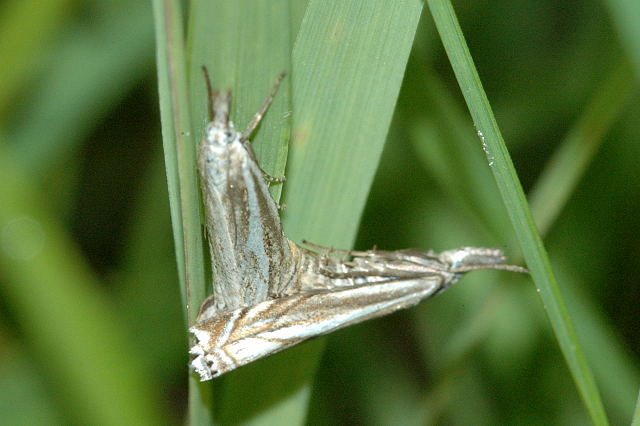 Picture taken in Commanster, Belgian High Ardennes . Species: Crambus pratella couple